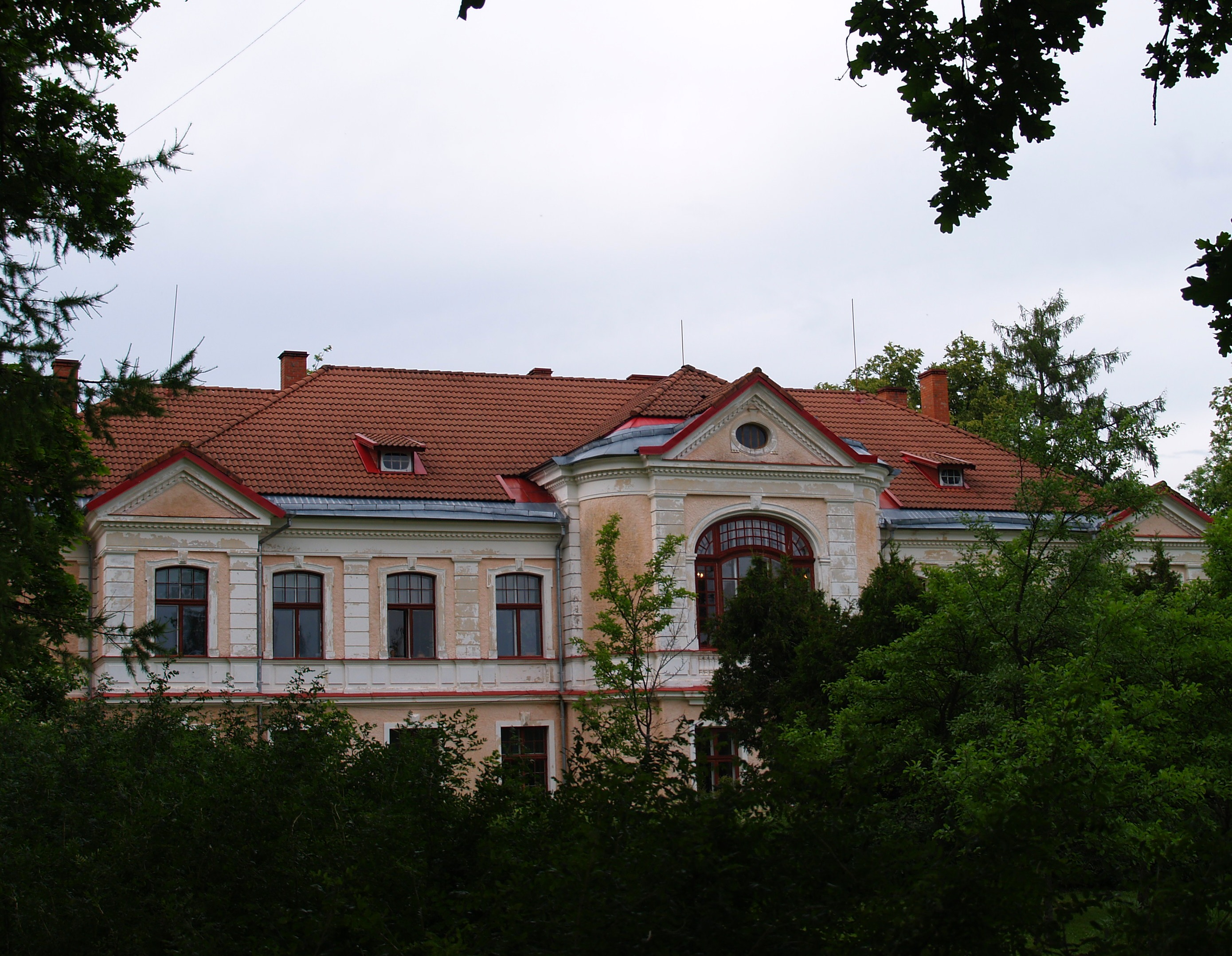 Kärstna manorhouse in Estonia.